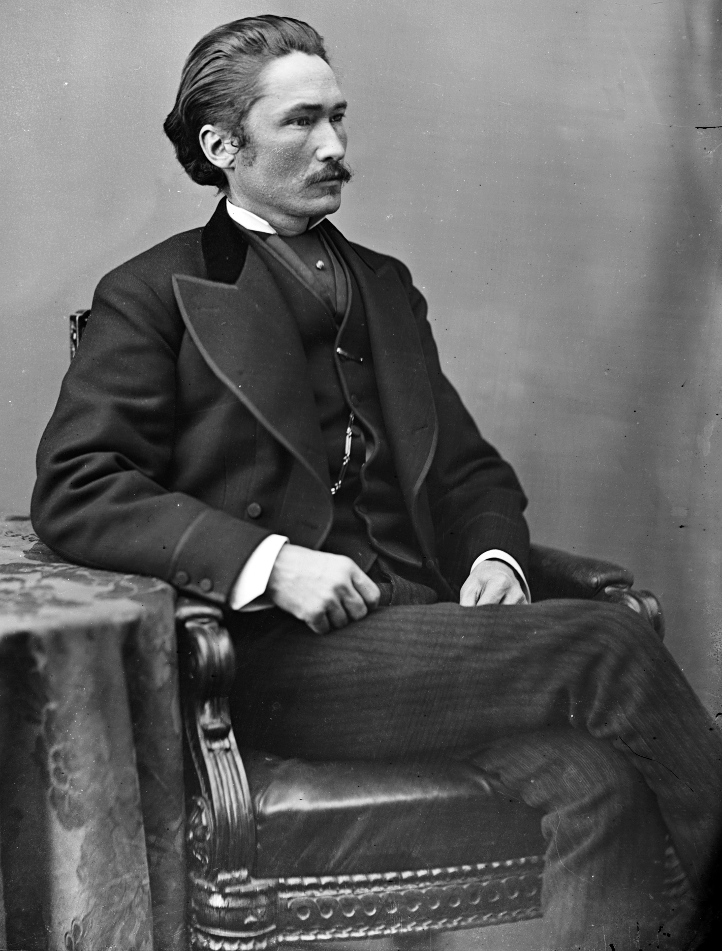 Alexander Boarman, US Representative from Louisiana